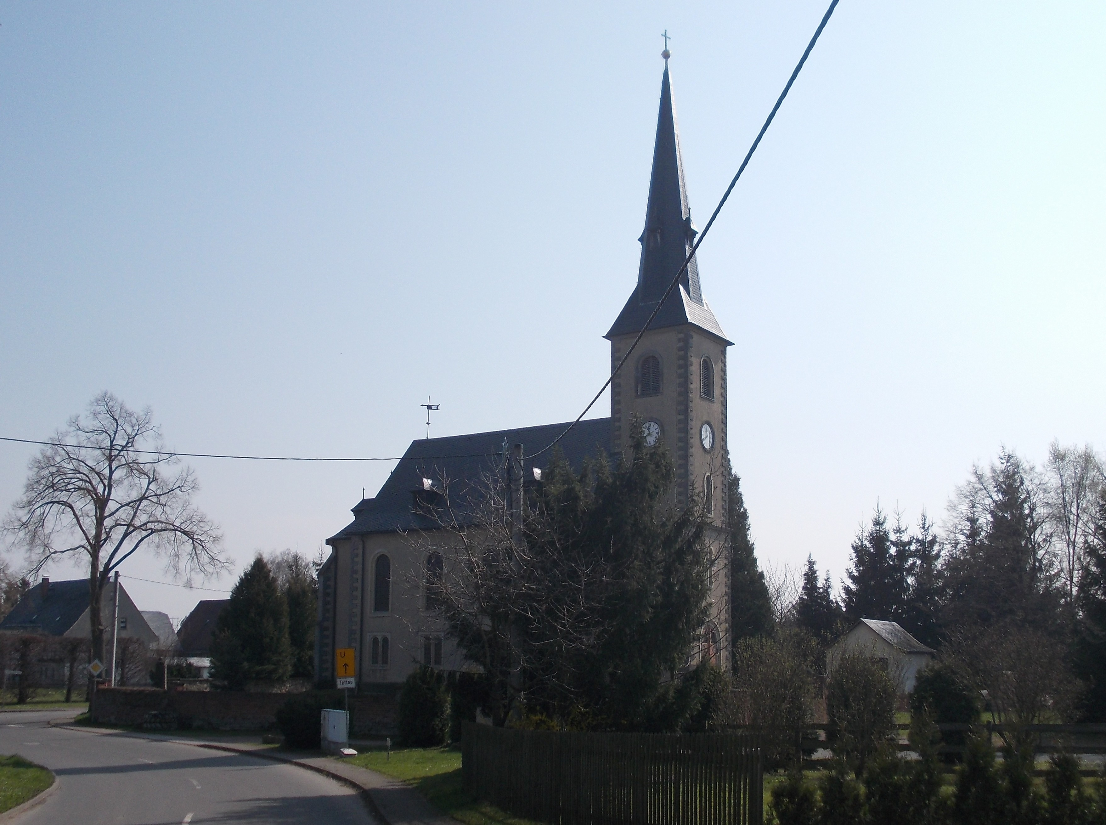 Pfaffroda church (Schönberg, Zwickau district, Saxony)